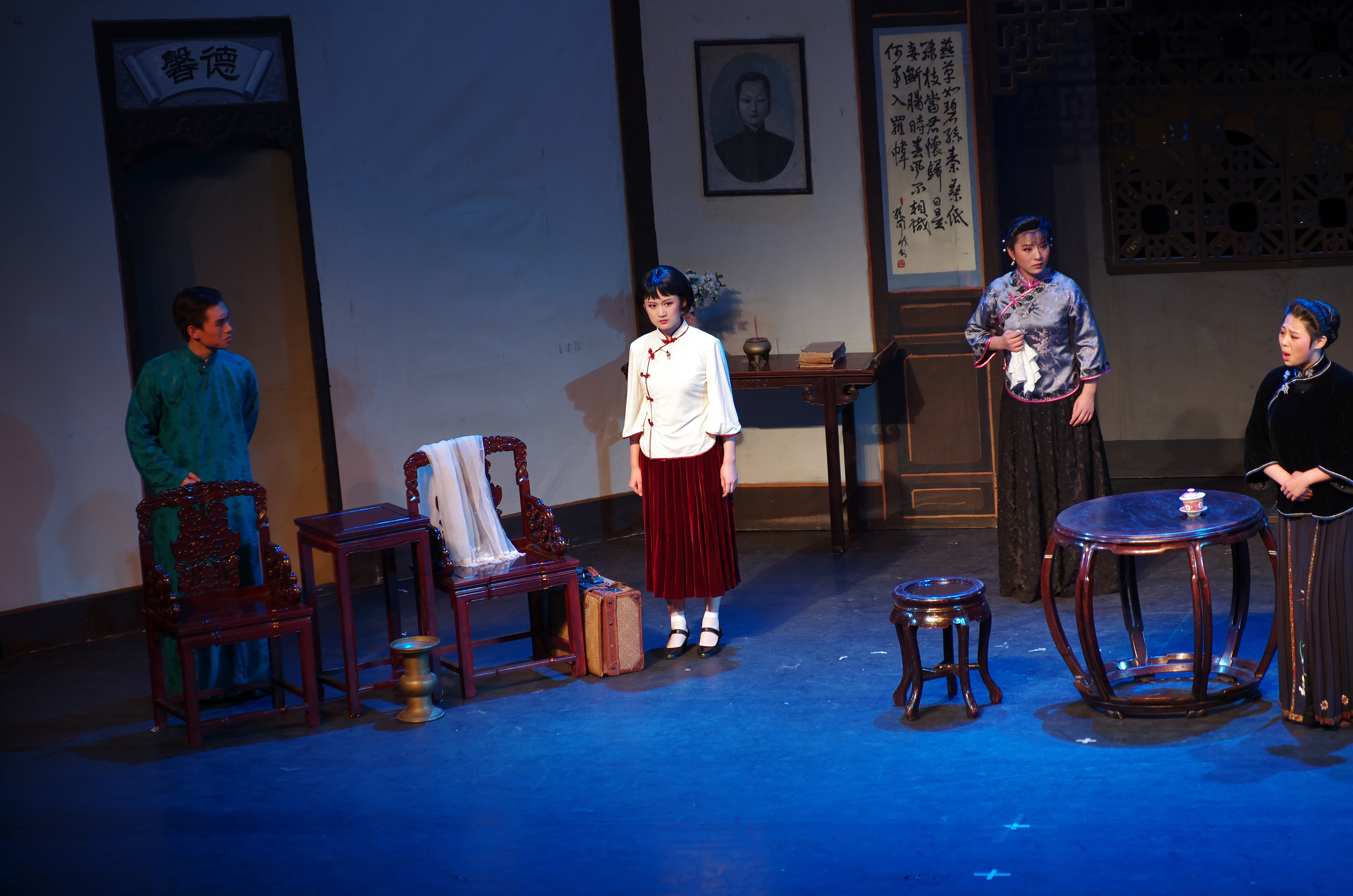 A Shanghai opera performance of Thunderstorm (大雷雨)